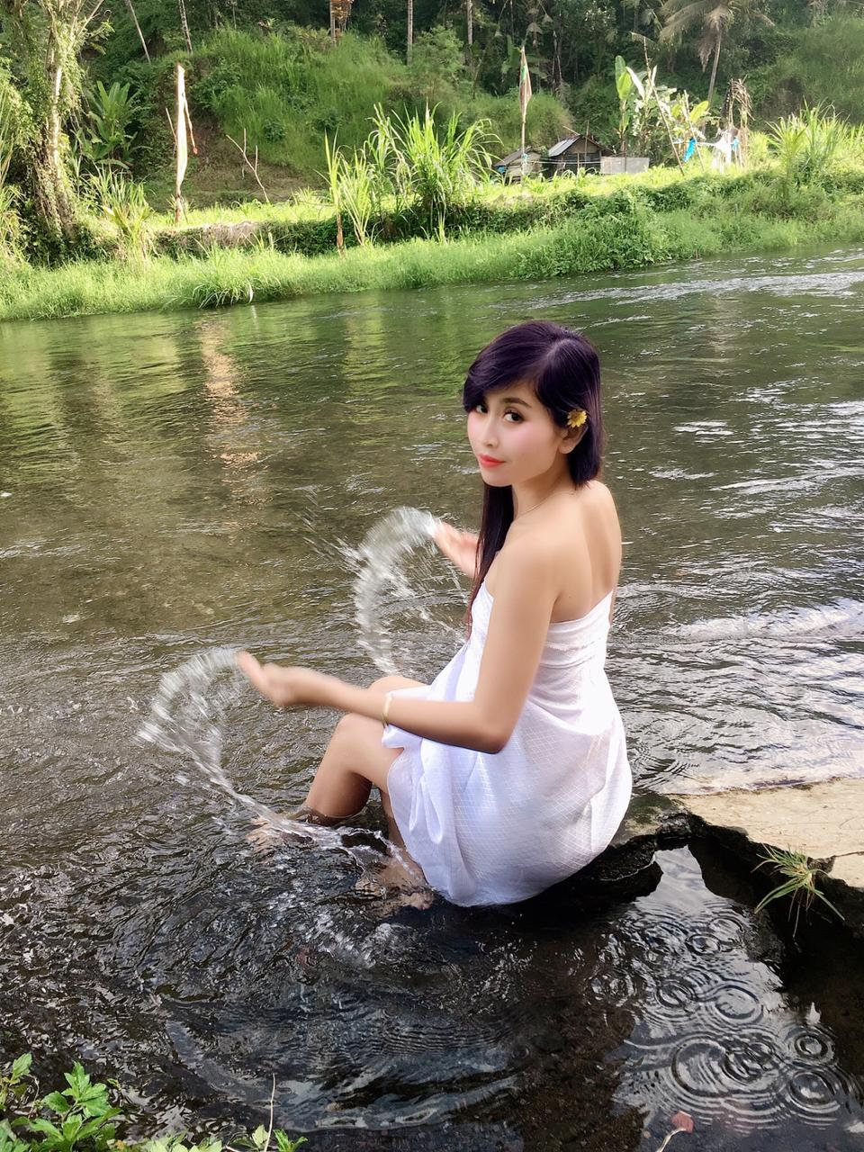 Oliolie (Ni Komang Julianti) in Karangasem, Bali, Indonesia